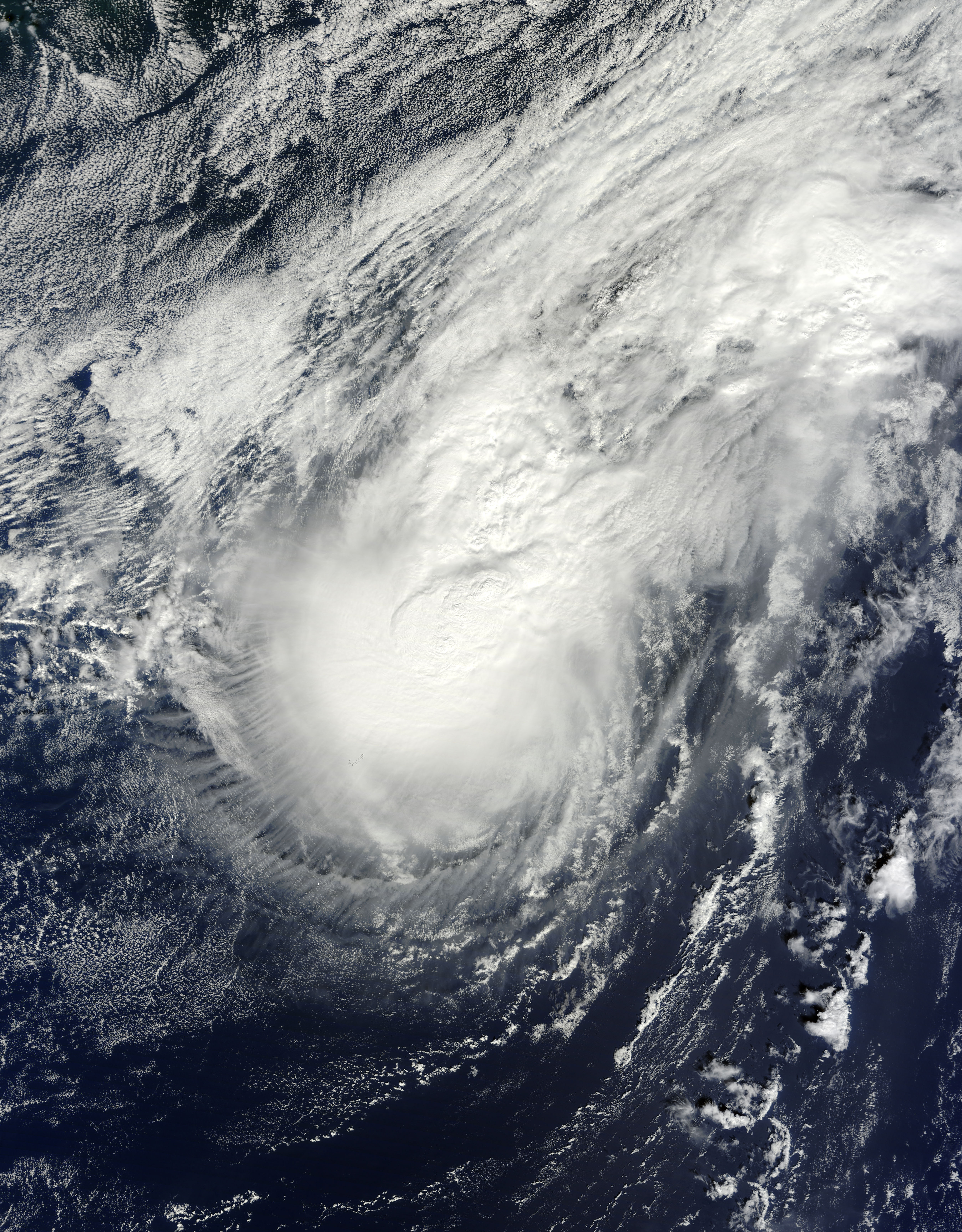 Hurricane Fay (07L) in the Atlantic Ocean